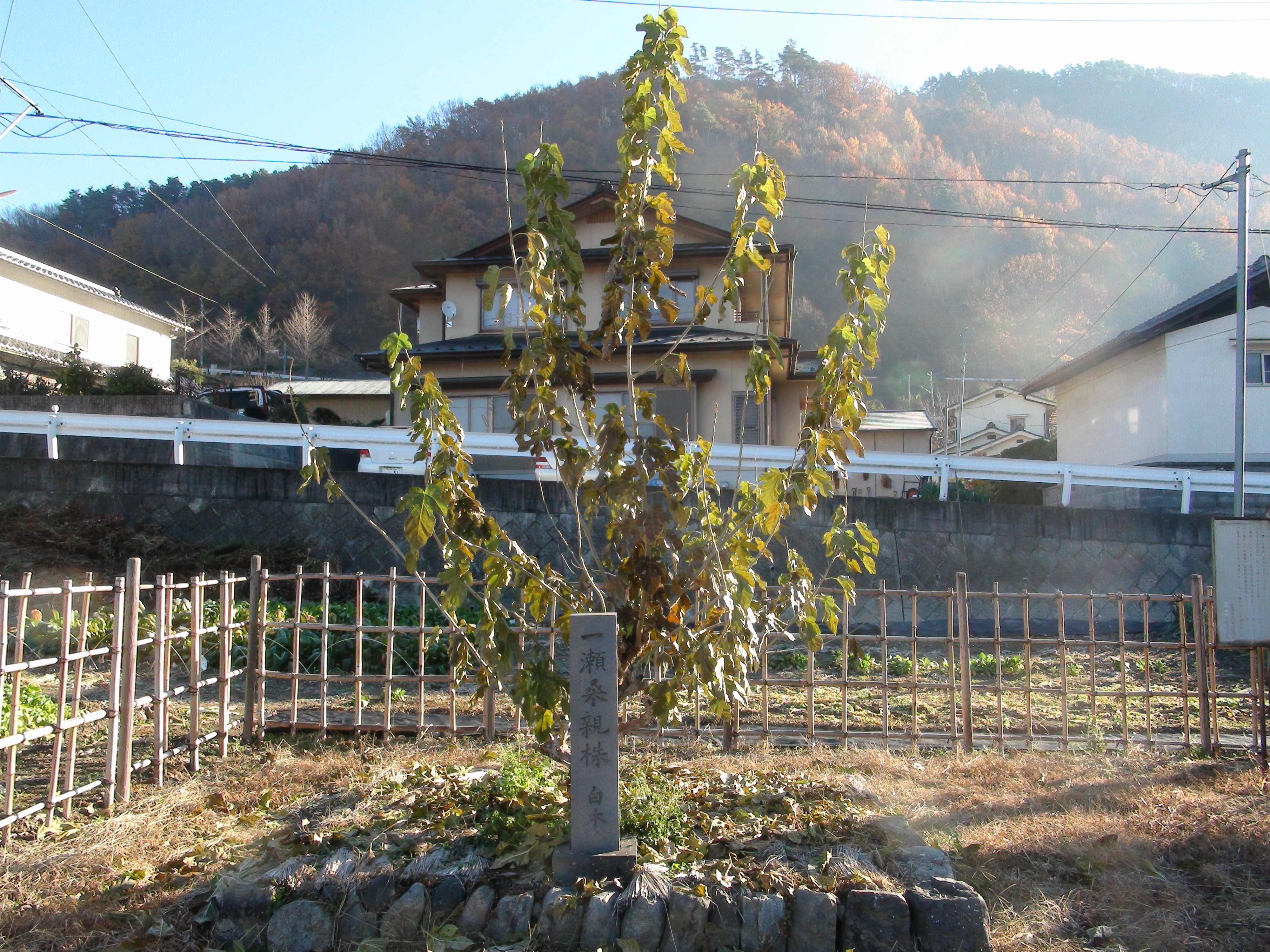 Origin blue mulberry trees Ichinose